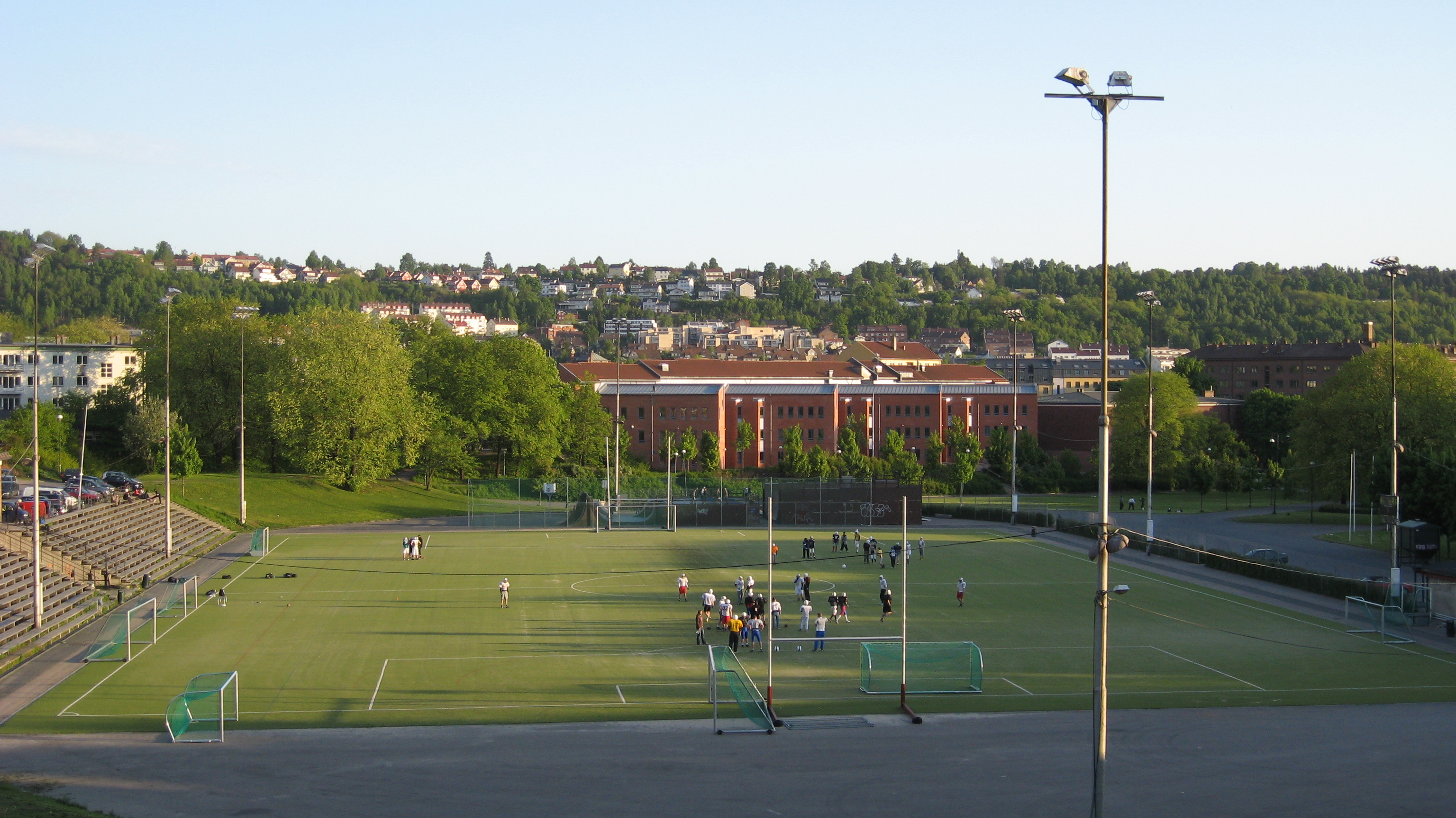 Training American football at Jordal.